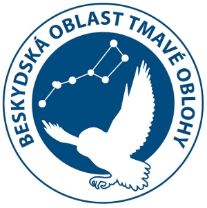 Logo of the Czech/Slovak transboundary Beskydy Dark-Sky Park.